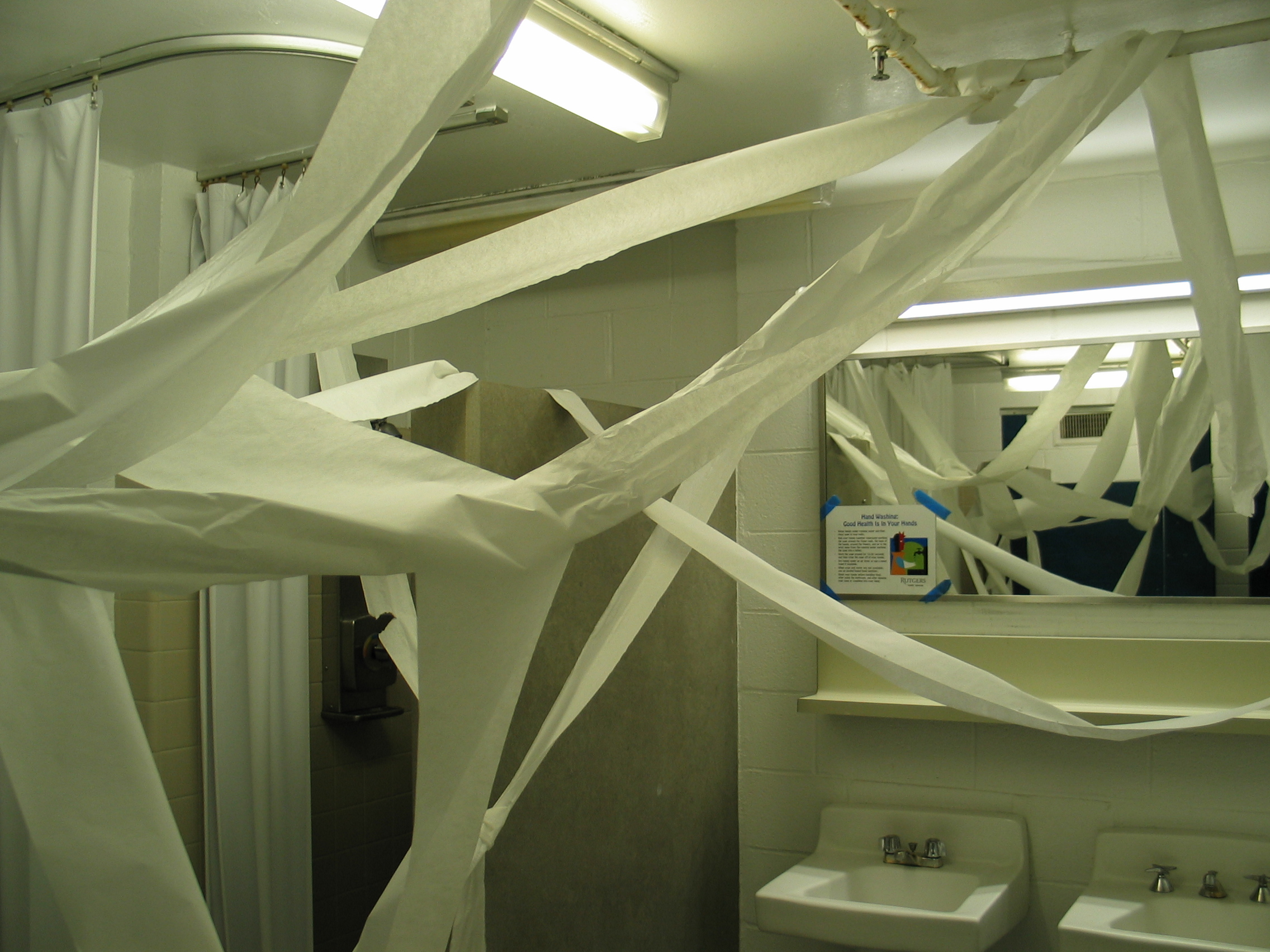 A bathroom post-toilet papering. I had absolutely nothing to do with this and was a casual observer after the fact.